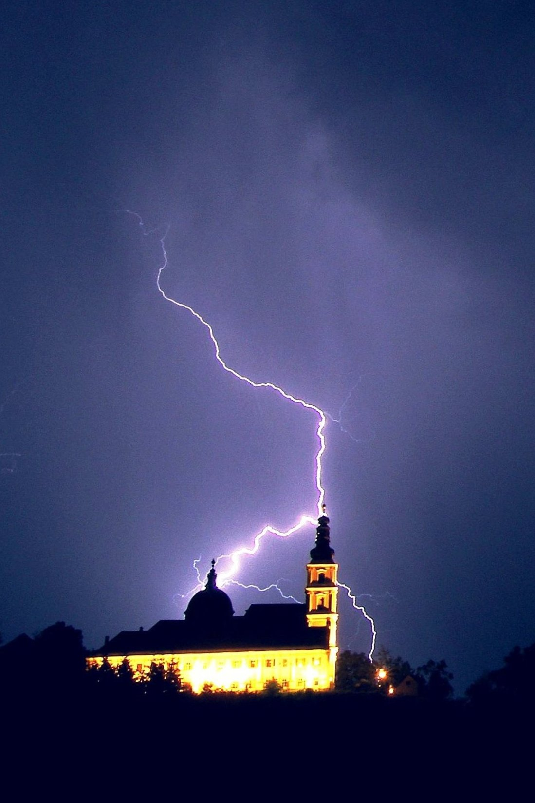 Lightning over Mariatrost Basilica, Graz (Austria)